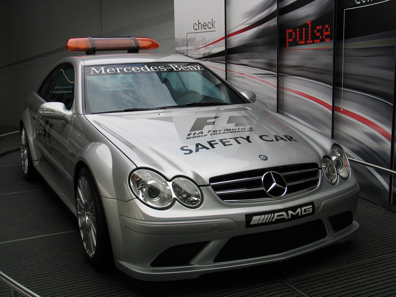 Safety Car Hockenheimring